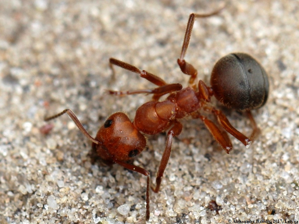 Formica truncorum